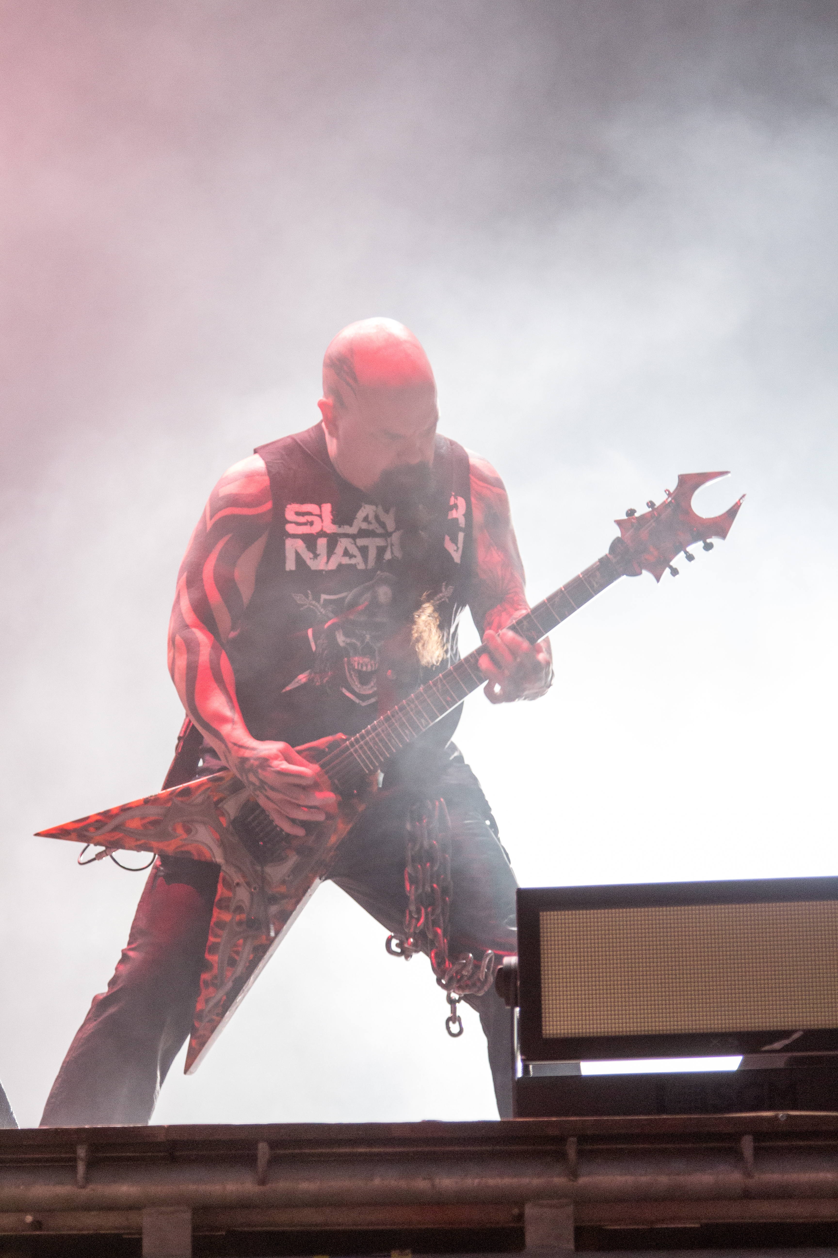 Kerry King from Slayer at Nova Rock 2014